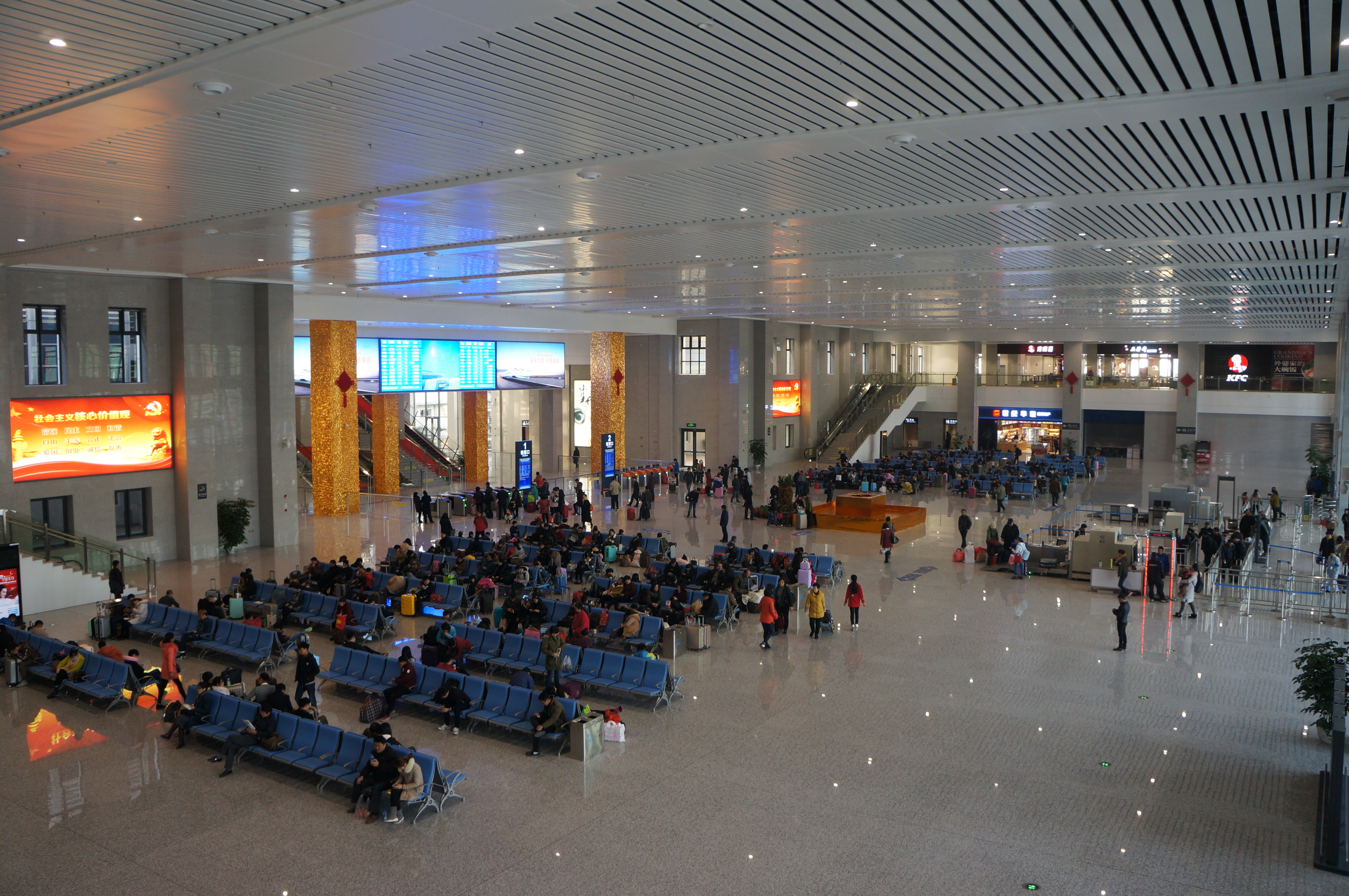 201701 Waiting Room of Quzhou Station